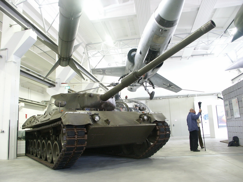 Leopard 1 tank